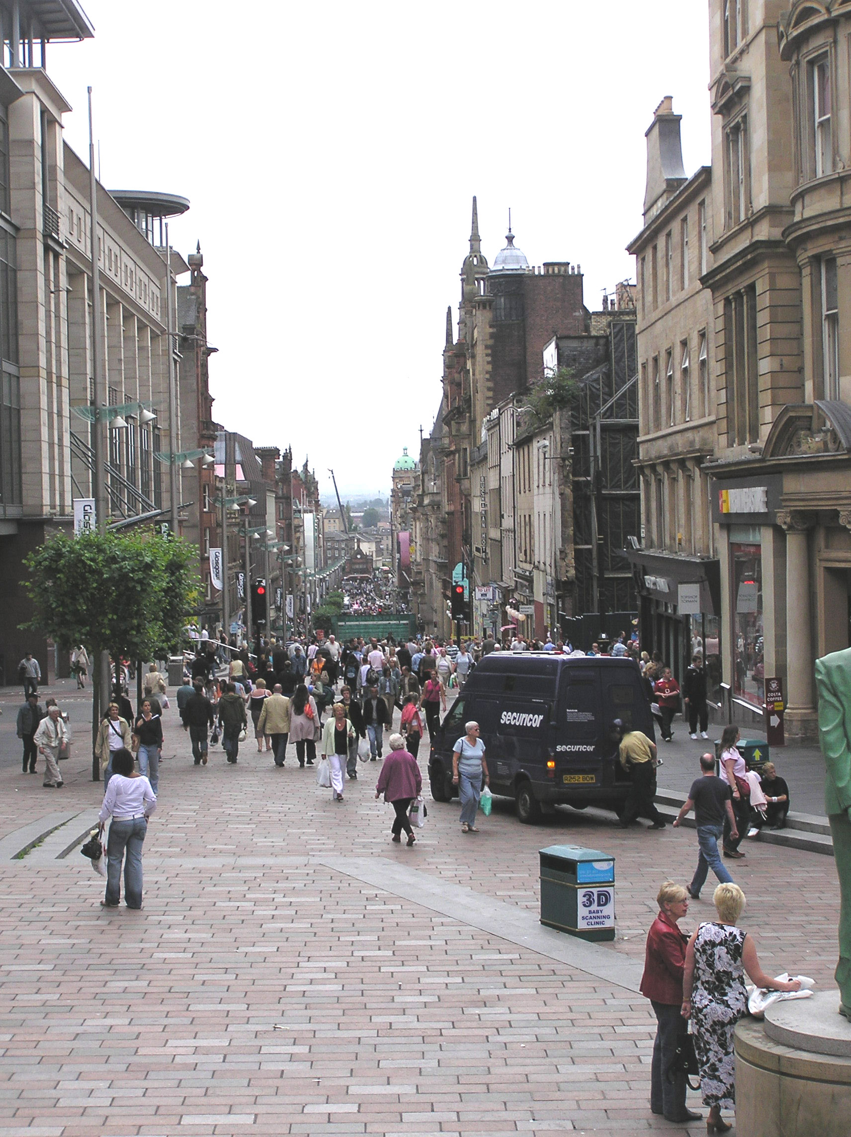 Buchanan Street in central Glasgow, Scotland. Looking south from the Royal Concert Hall (at the junction of Buchanan Street and Sauchiehall Street). St. Enoch Square is visible in the distance. In the far right of this picture a copper statue commemorating the late Donald Dewar.